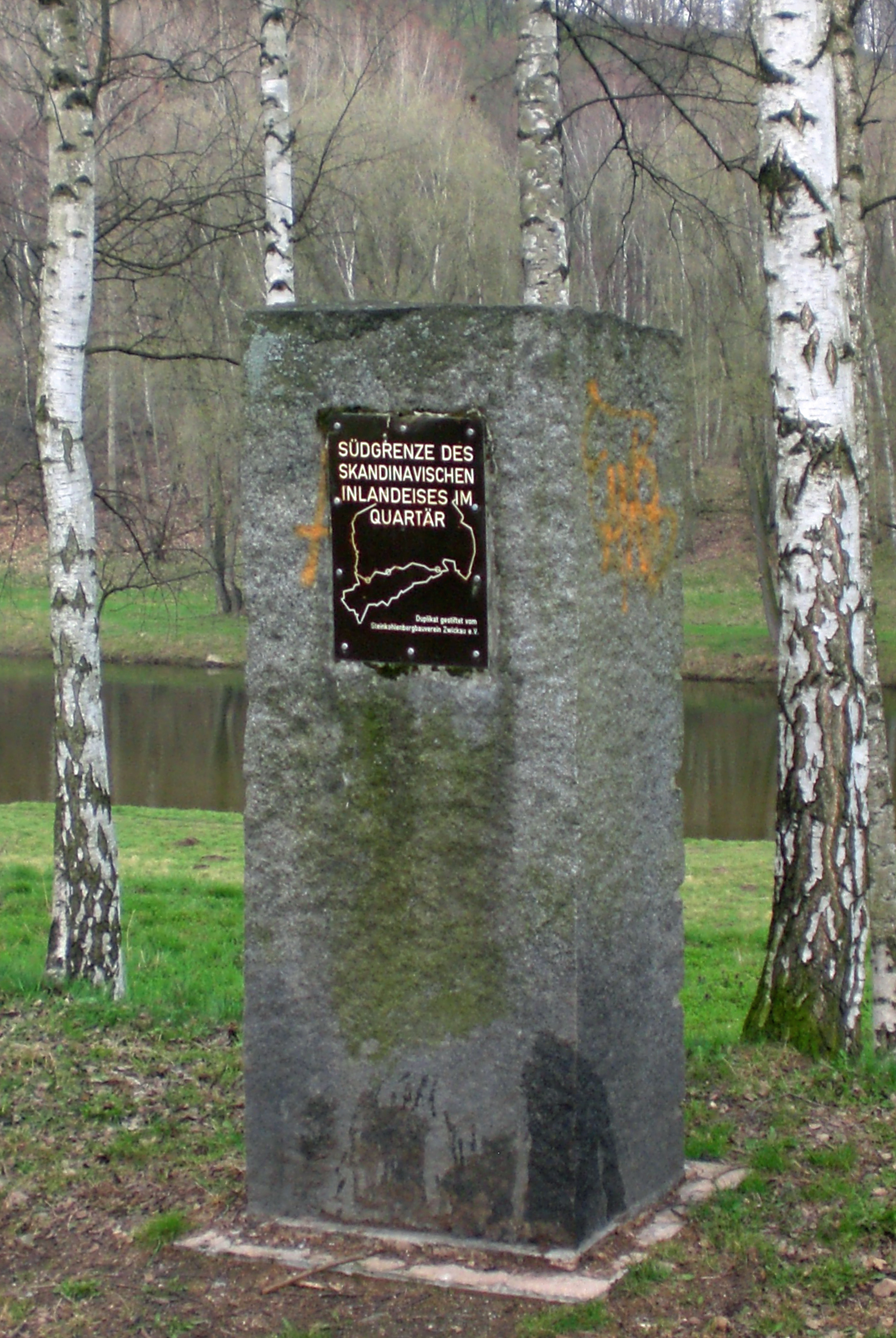 Southern ice age limit mark in Zwickau, Saxony, Germany.